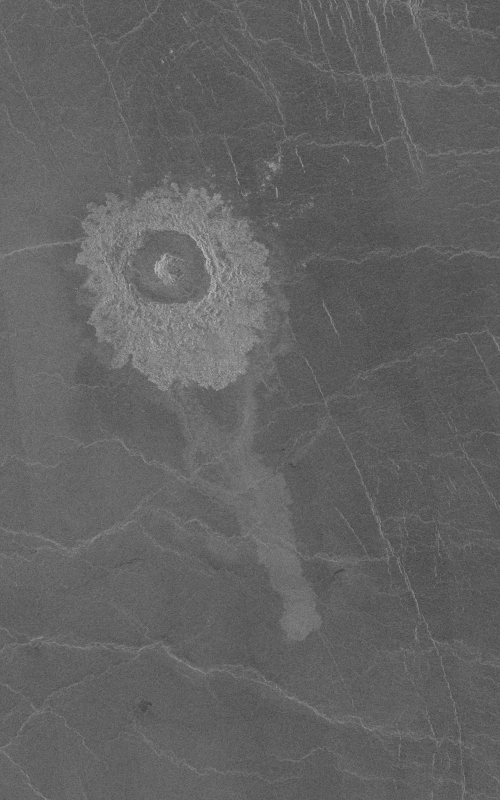 Ariadne Crater on Venus as imaged by Magellan a robotic space probe launched by NASA on May 4, 1989, to map the surface of Venus by using synthetic aperture radar.